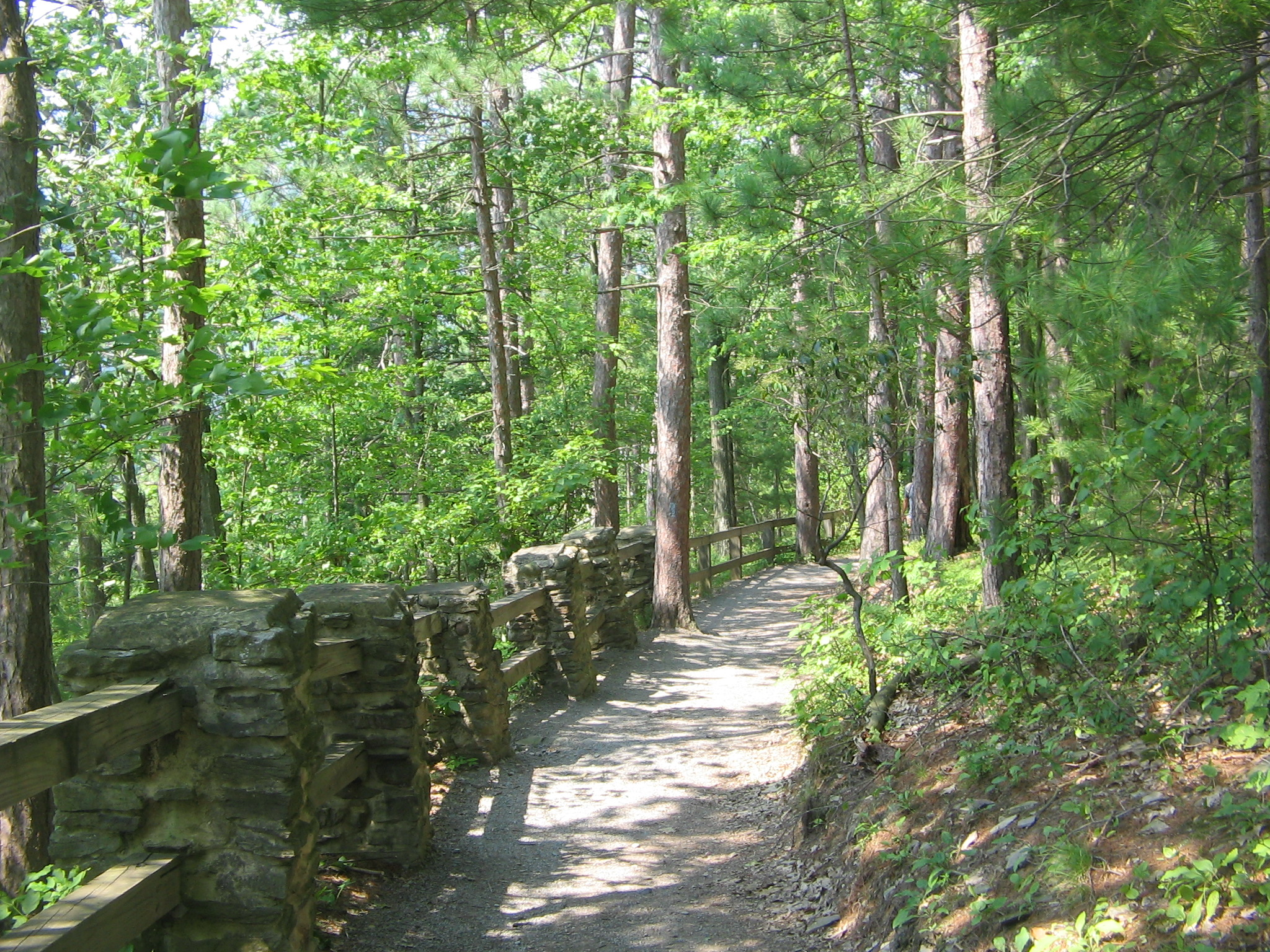 Turkey Path near trailhead at overlook in Leonard Harrison State Park in Shippen Township, Tioga County, Pennsylvania, United States